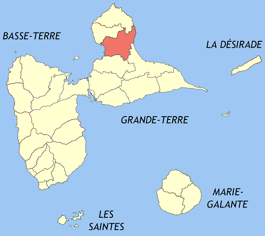 Location of Petit-Canalwithin Guadeloupe